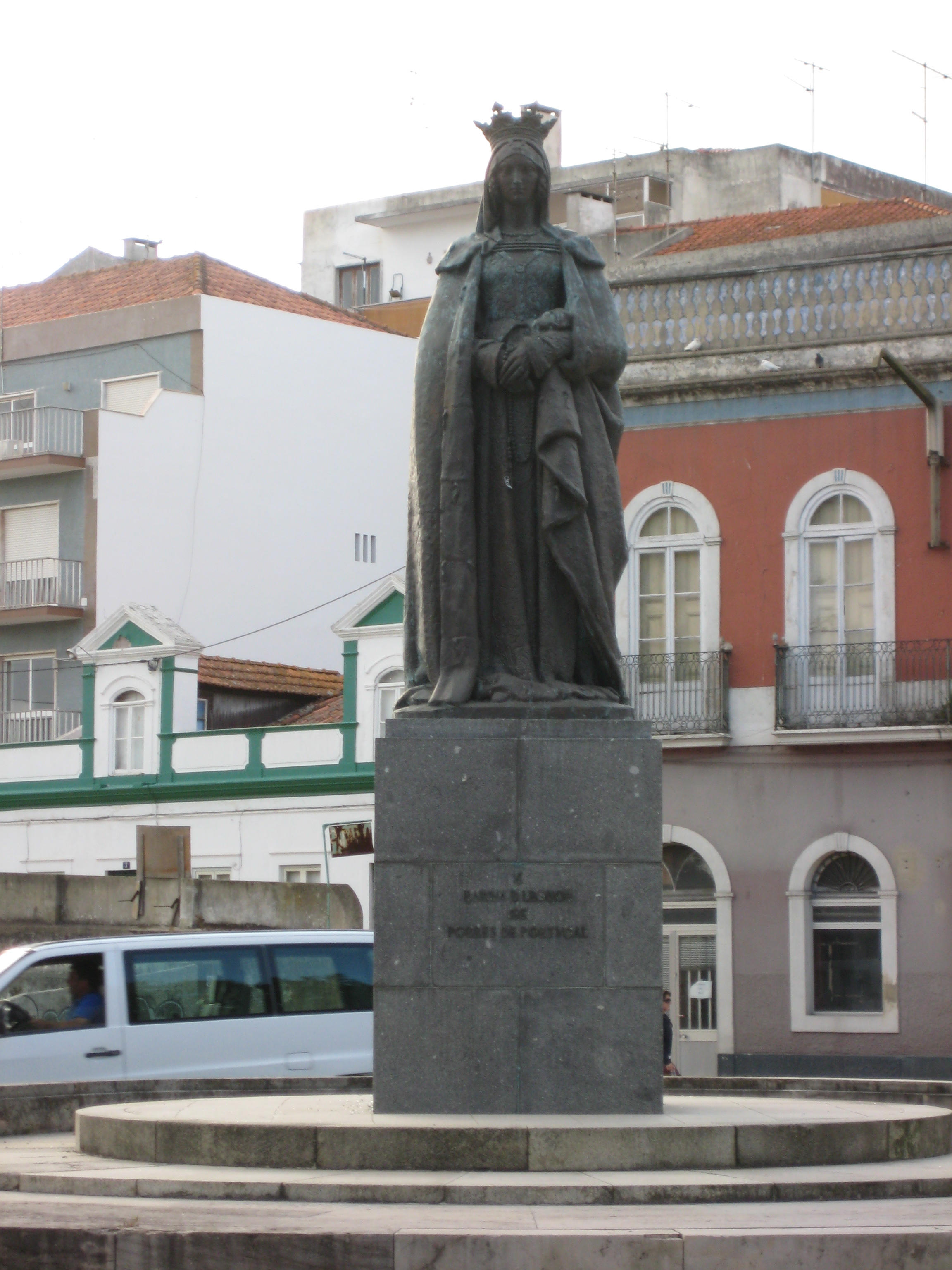 Francisco Franco, Statue of Queen Leonor (Rainha Dona Leonor) in the center of a roundabout in Caldas da Rainha